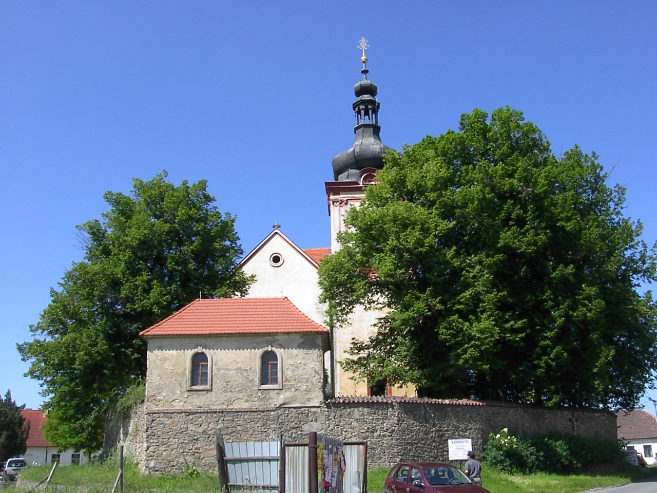 Church of St Gall in Neveklov, Czech Republic.